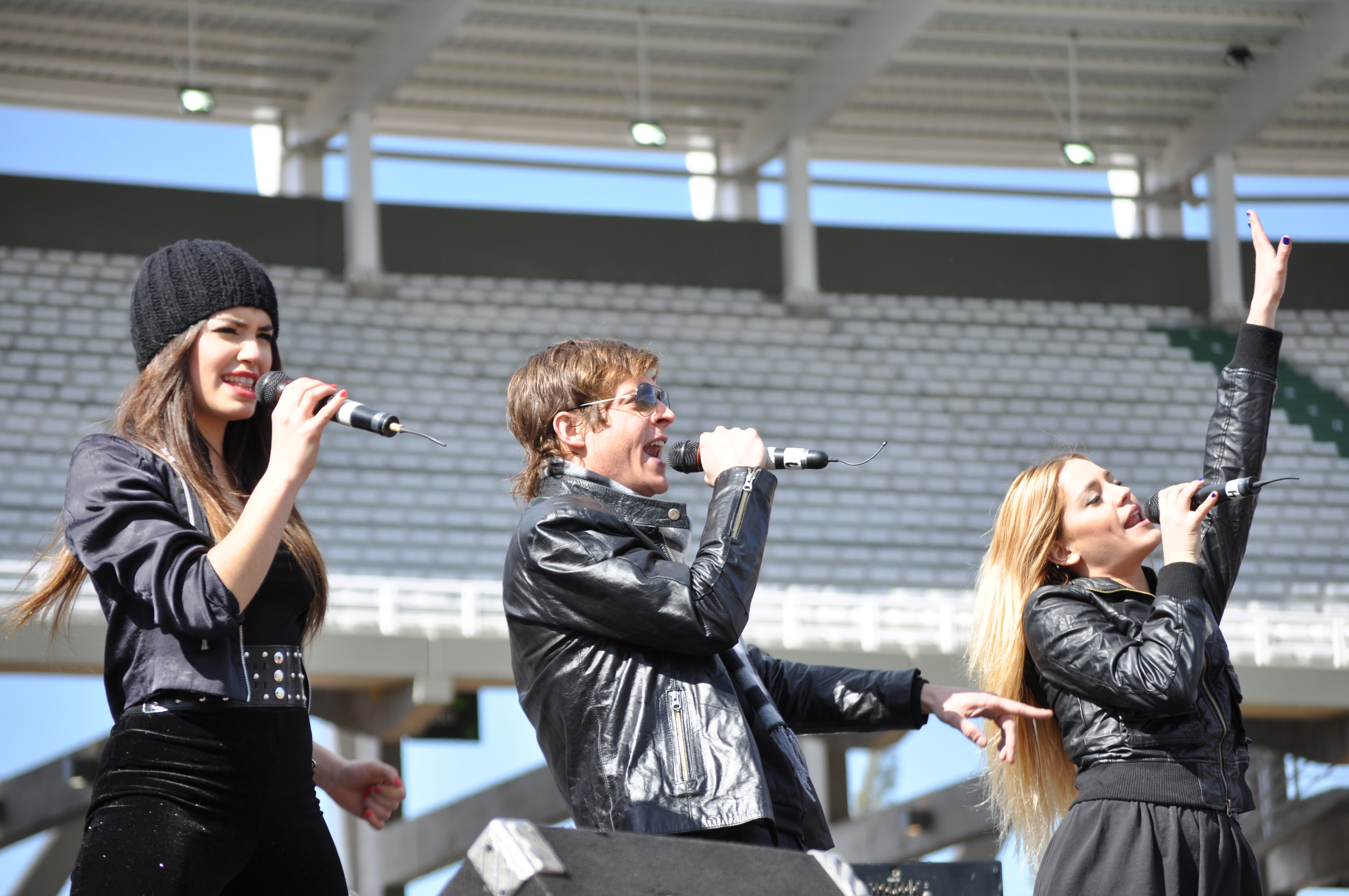 Mariana Espósito, Gastón Dalmau and Rocío Igarzábal from Teen Angels at a concert in Cordoba, Argentina.